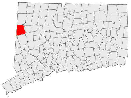 I made this.